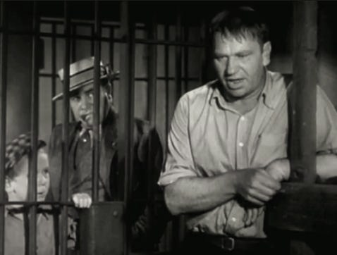 L. to R. : Jackie Cooper, Edward Brophy and Wallace Beery in The Champ (1931) - trailer (cropped screenshot)